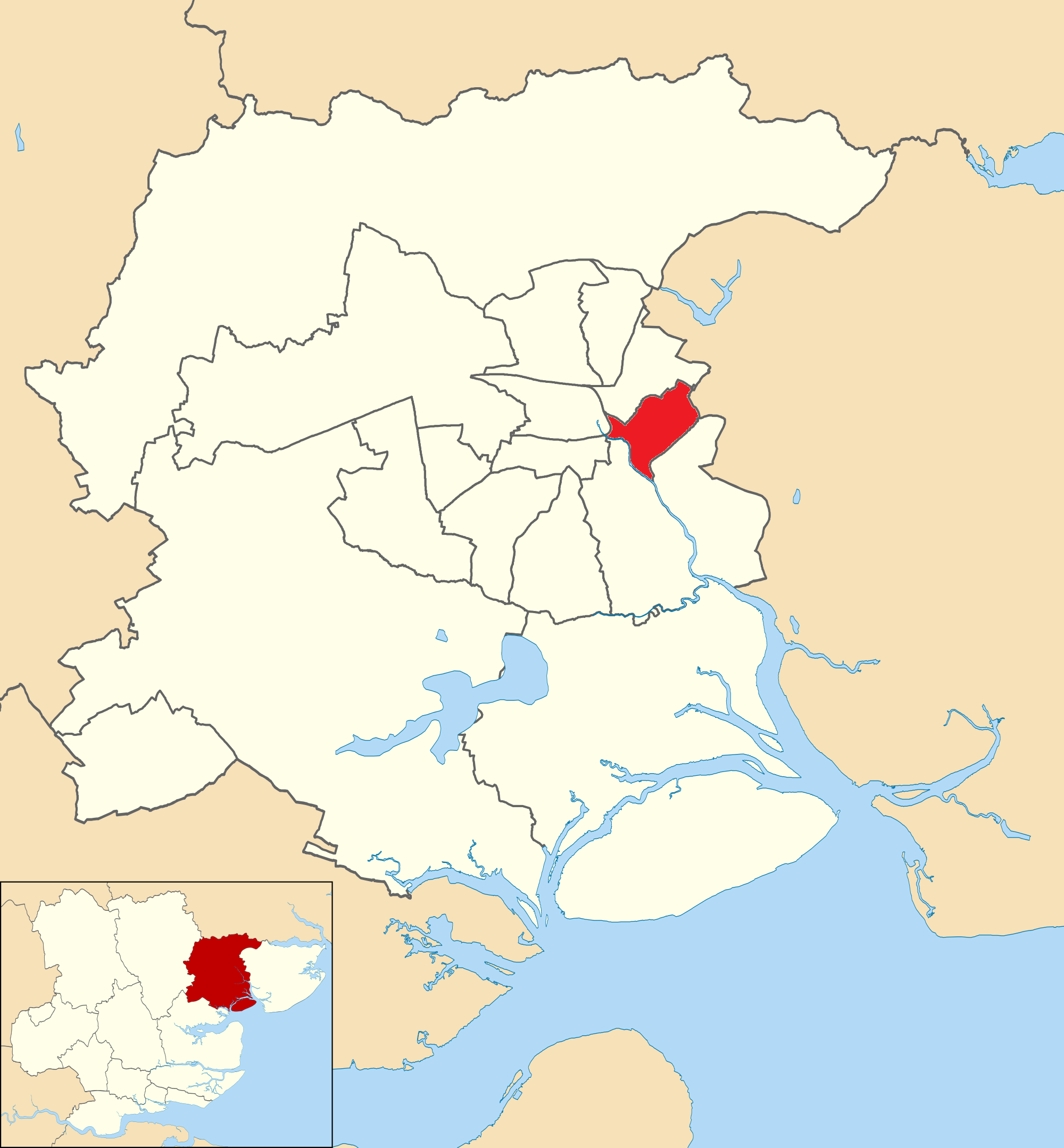 Greenstead ward highlighted within Colchester Borough